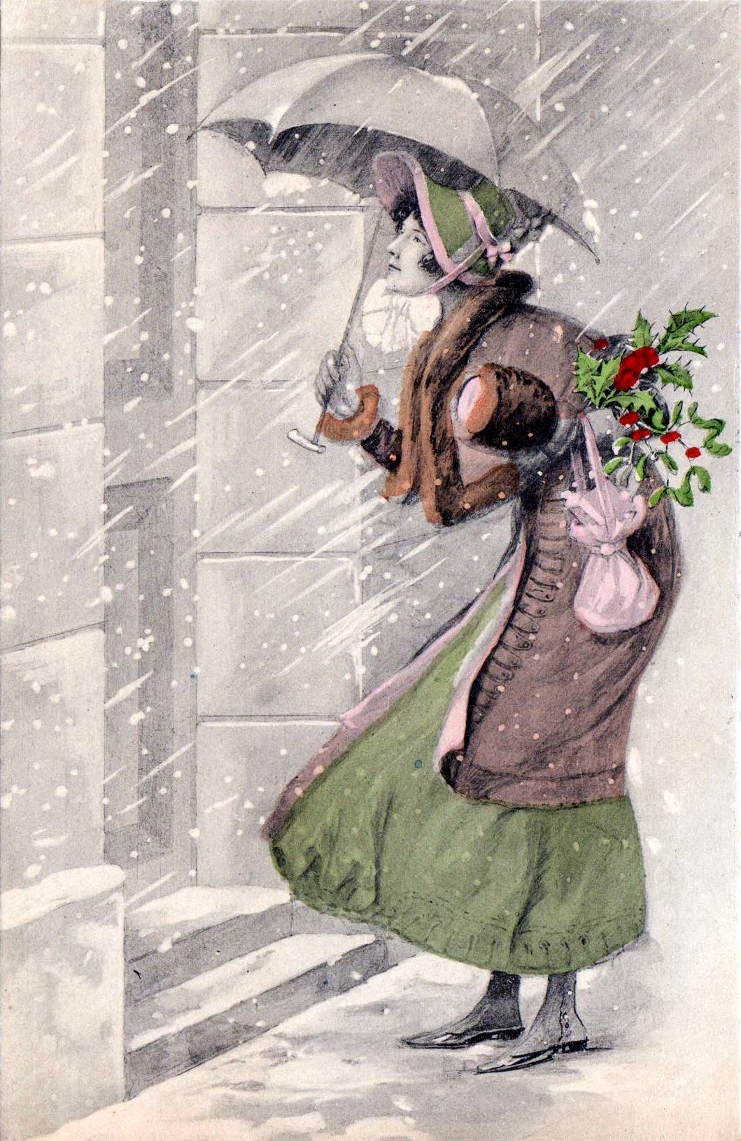 The Christmas Visit. Postcard, c. 1910. Publisher: Unknown.